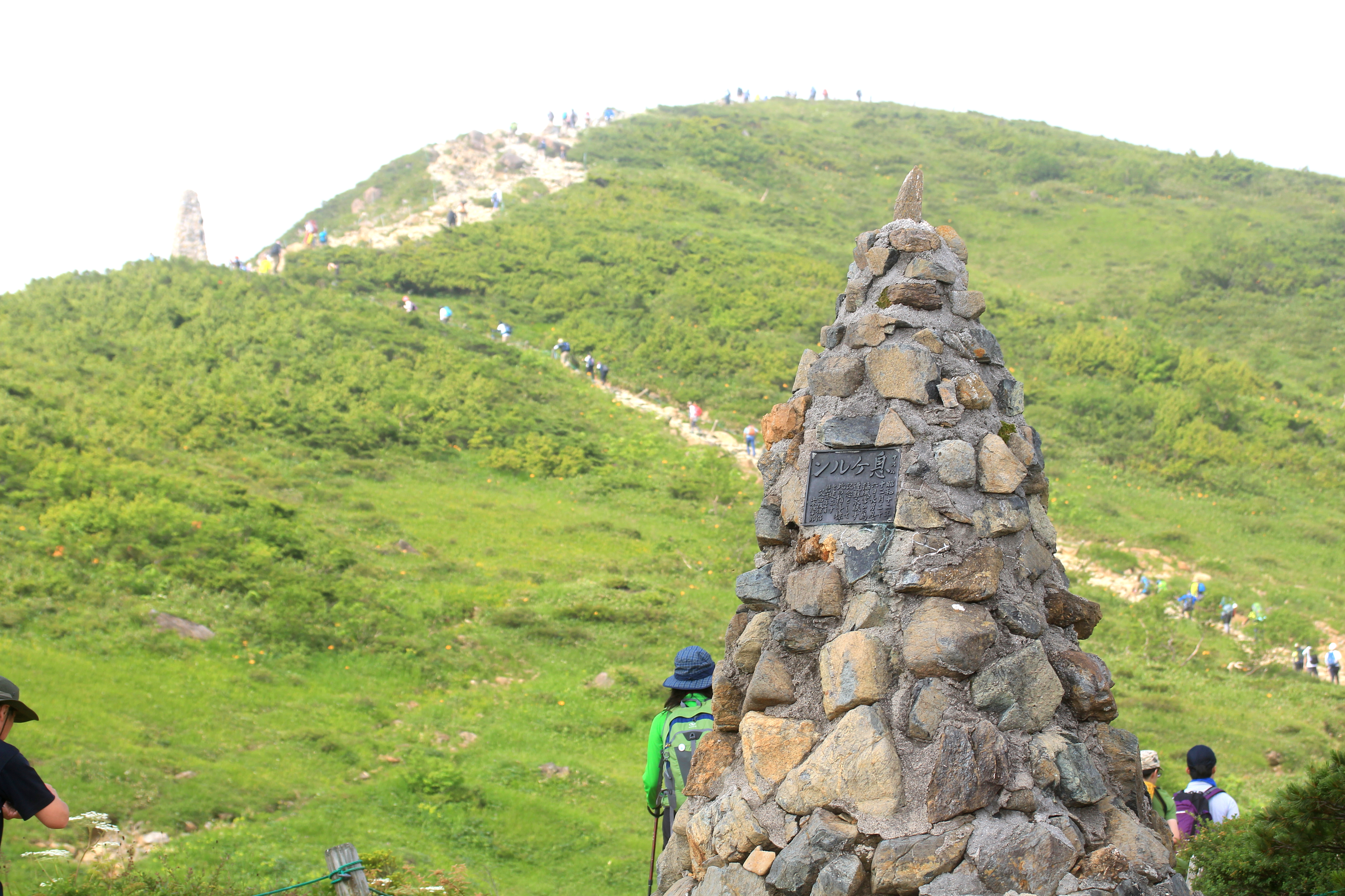 Yasumu Cairn on Happo Ridge in Mount Karamatsu, Ushirotateyama Mountains (Hida Mountains), Hakuba, Nagano Prefecture, Japan.